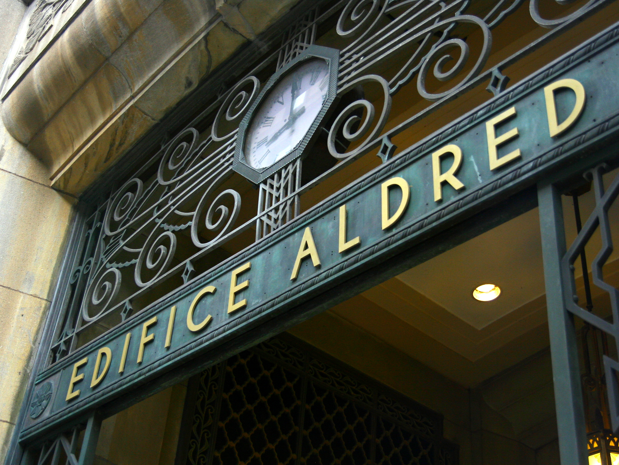 Photograph of the entrance of the Aldred Building